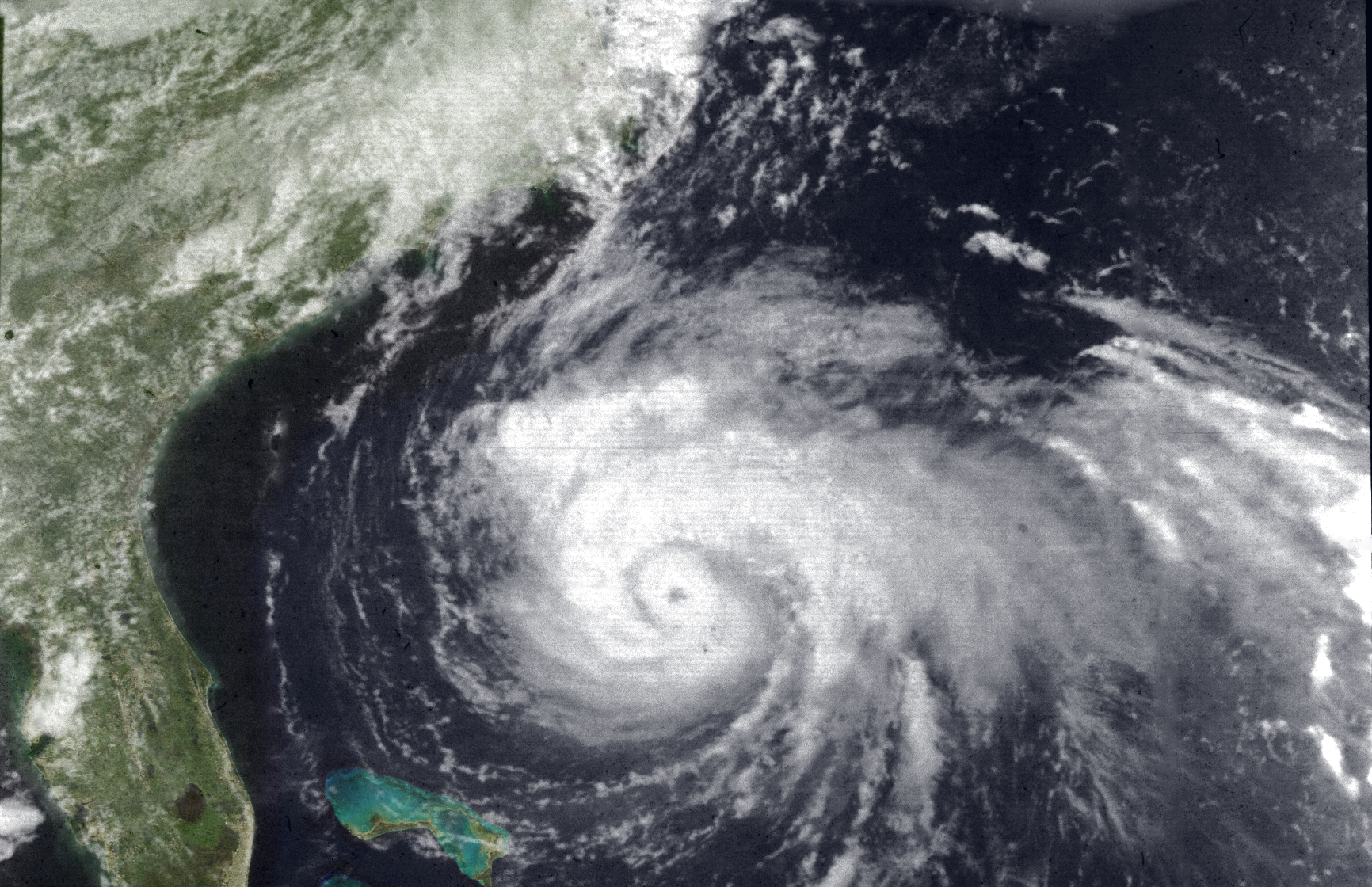 Colorized image of Hurricane Belle in 1976